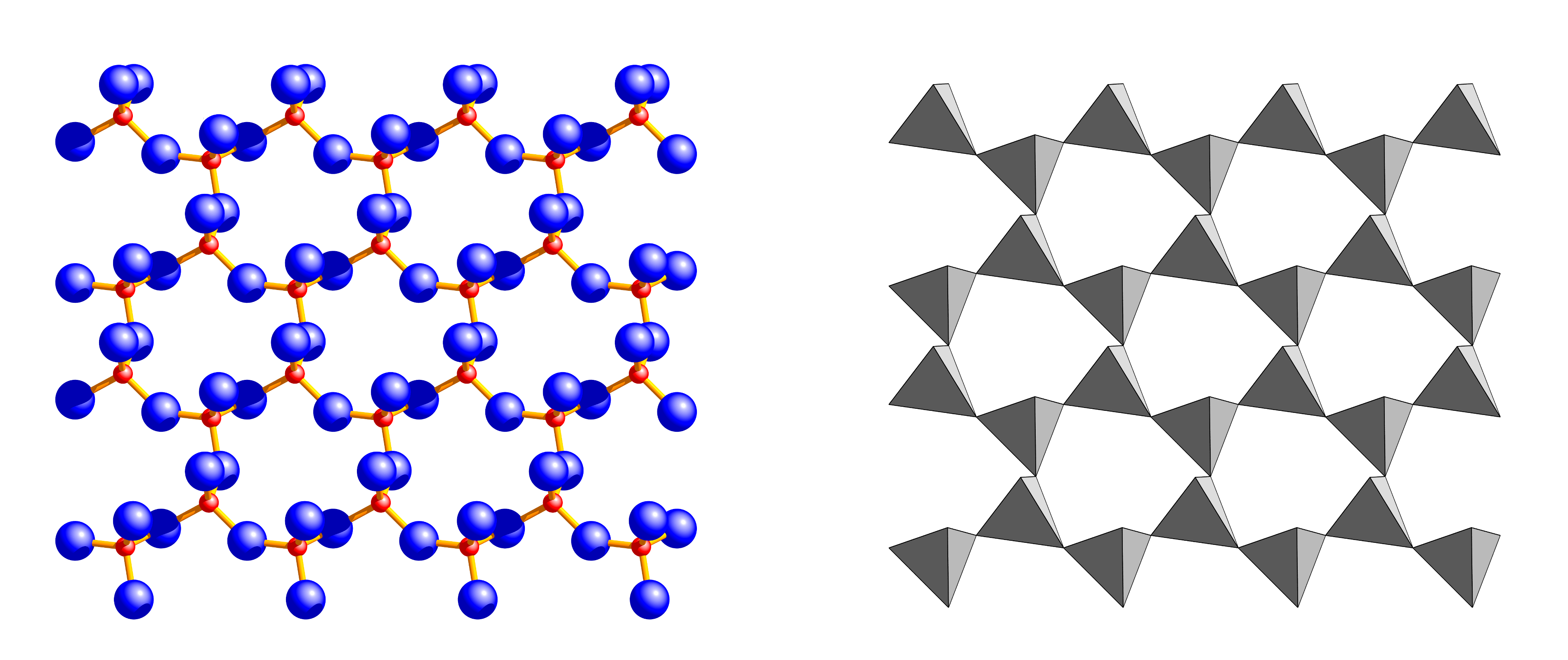 Muskovite silicate sheet Data from: Birle J., Tettenhorst R. (1968): Refined Muscovite structure, Mineralogical Magazine 36, pp. 883-886 Calculation of image data: Larry W. Finger, Martin Kroeker, and Brian H. Toby, DRAWxtl, an open-source computer program to produce crystal-structure drawings, J. Applied Crystallography V40, pp. 188-192, 2007 Rendering: POVRAY